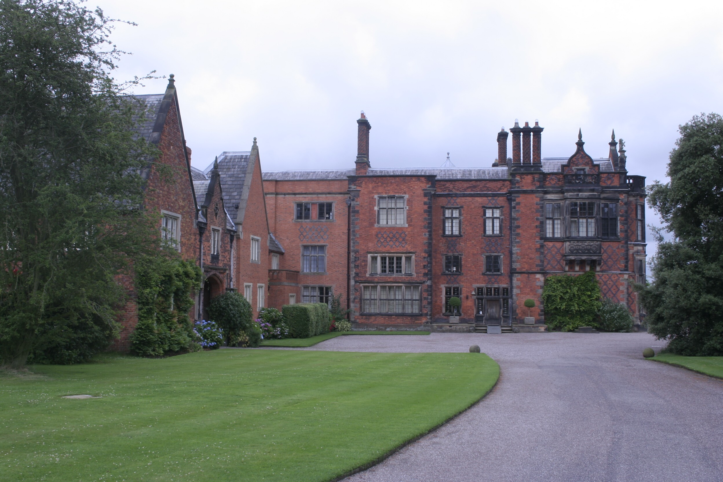 Arley Hall